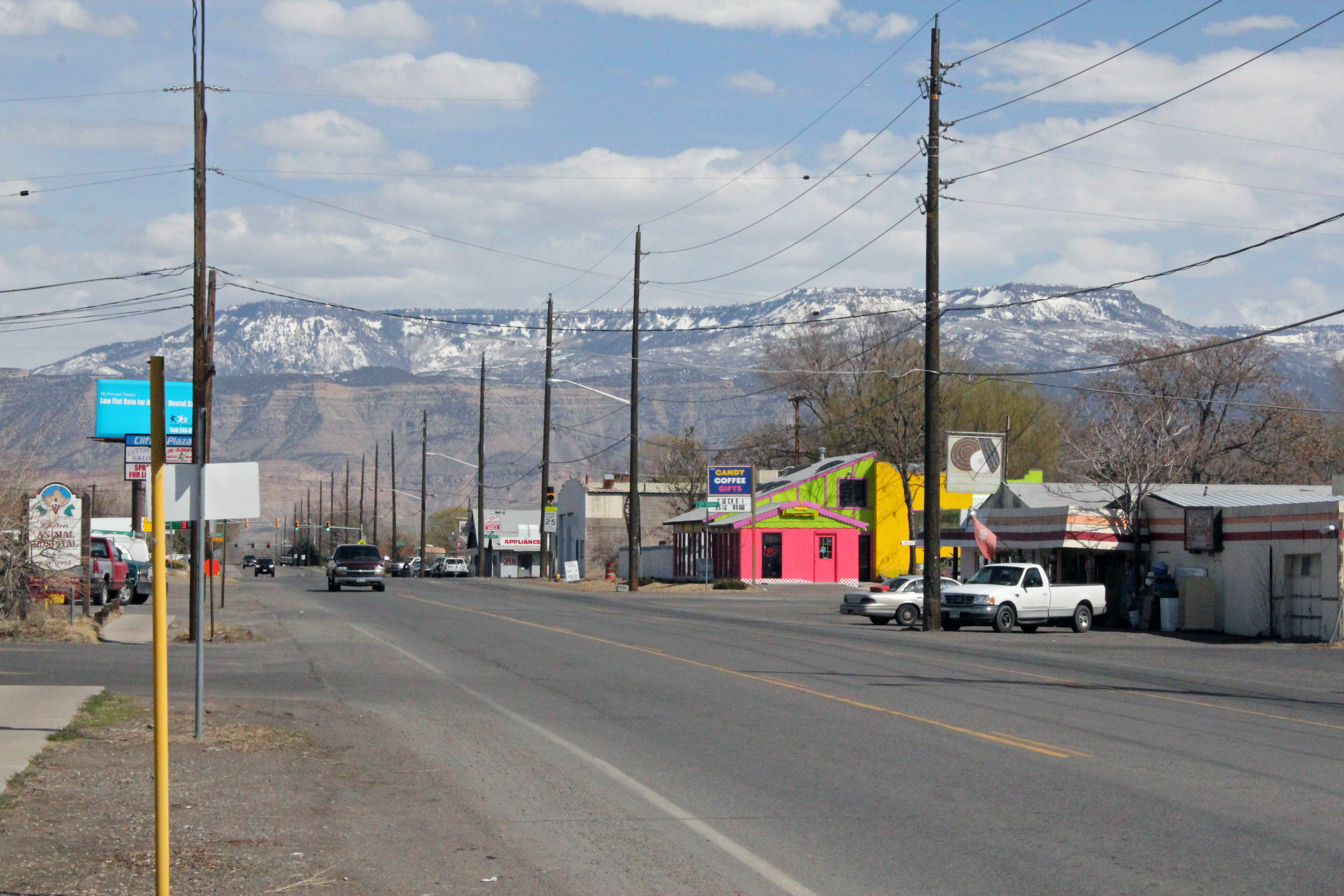 F Road (U.S. Highway 6) in Clifton, Colorado. Grand Mesa appears in the distance.